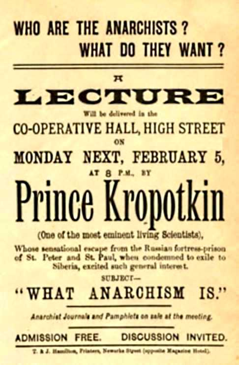 A leaflet promoting a lecture of Peter Kropotkin